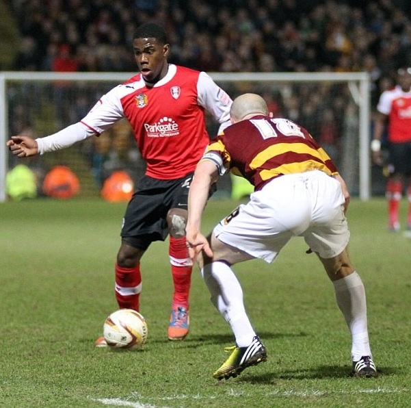 Mitch Rose playing for Rotherham against Bradford.